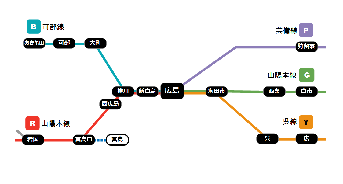 Railway map of JR West Hiroshima City Network